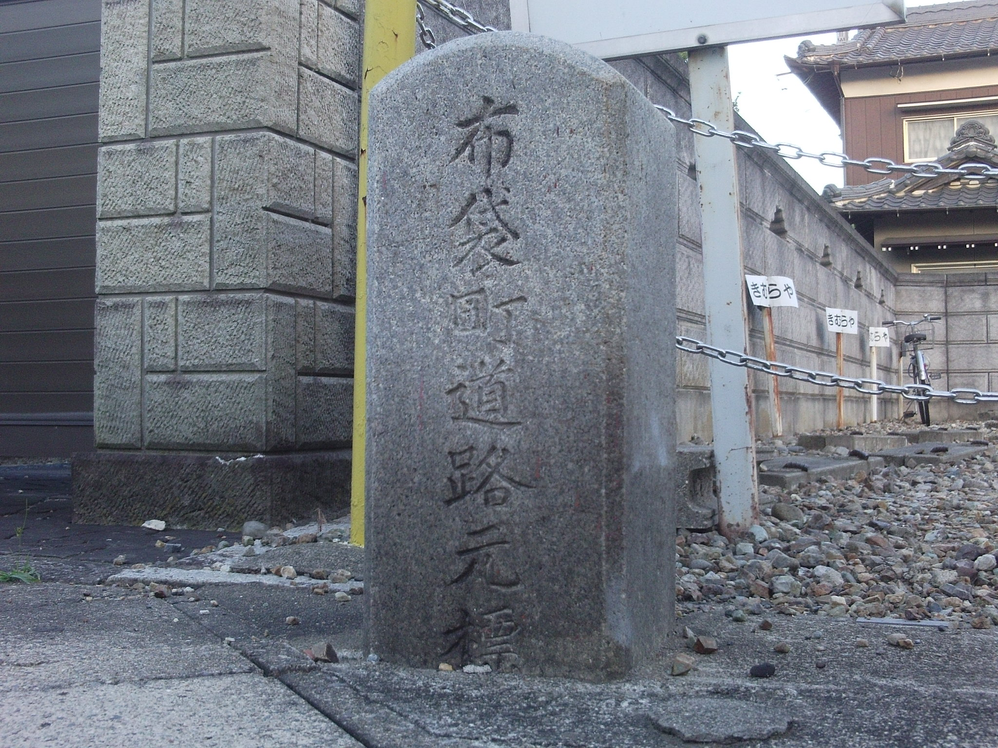 Kilometre zero of Hotei town. (Hotei town, Niwa-gun, Aichi.)